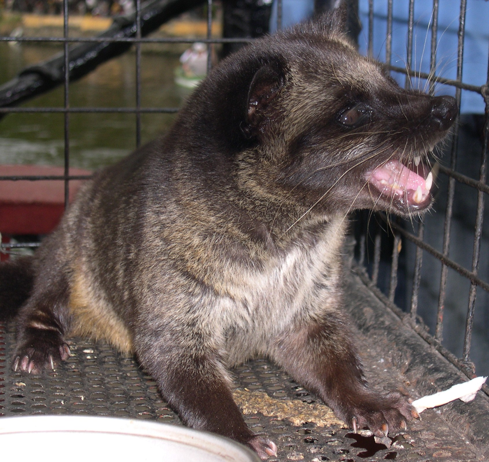 The Philippine subspecies of the Common Palm Civet (Paradoxurus hermaphroditus)